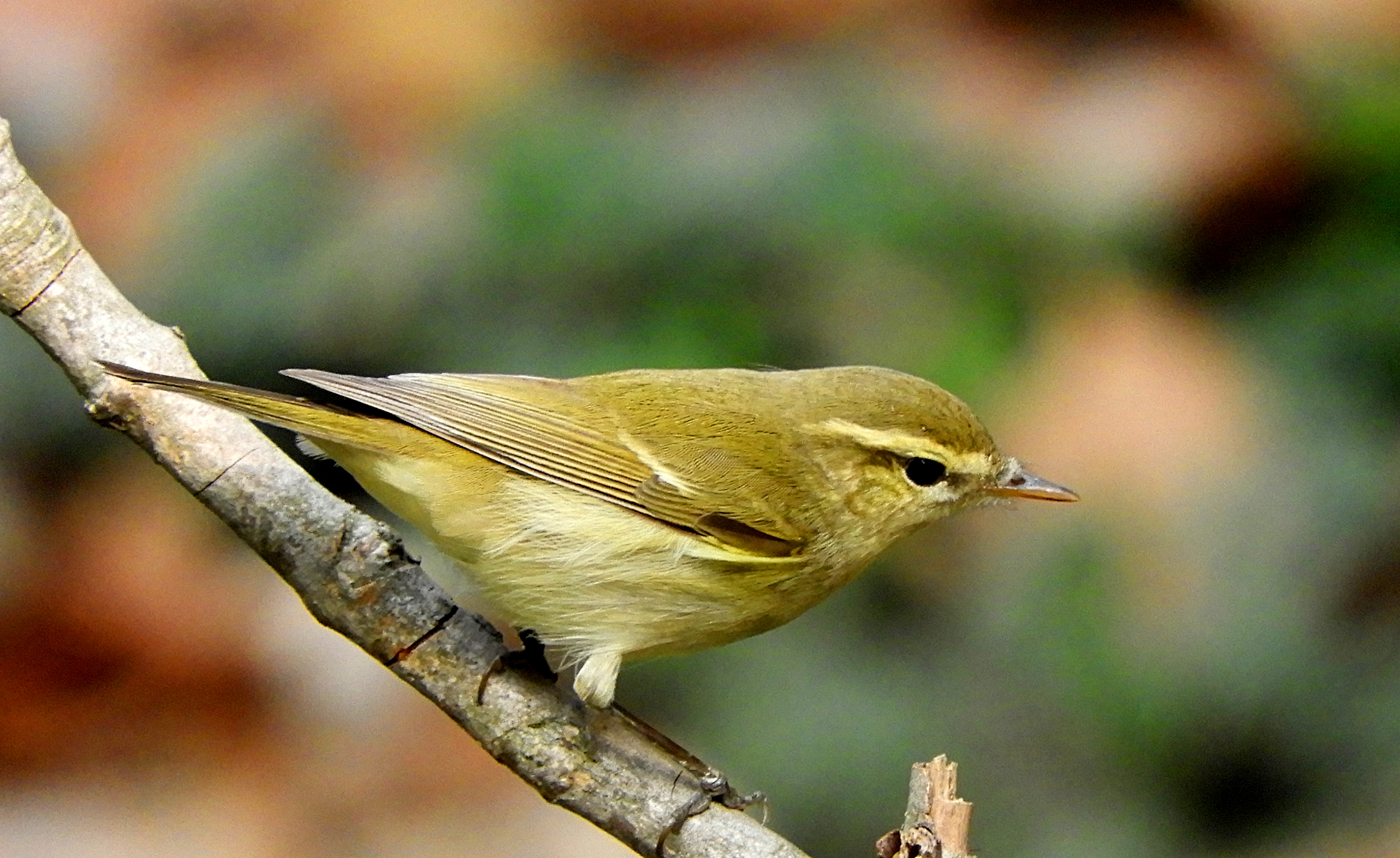 Greenish Warbler (Phylloscopus trochiloides ludlowi) Sattal, Uttarakhand, India